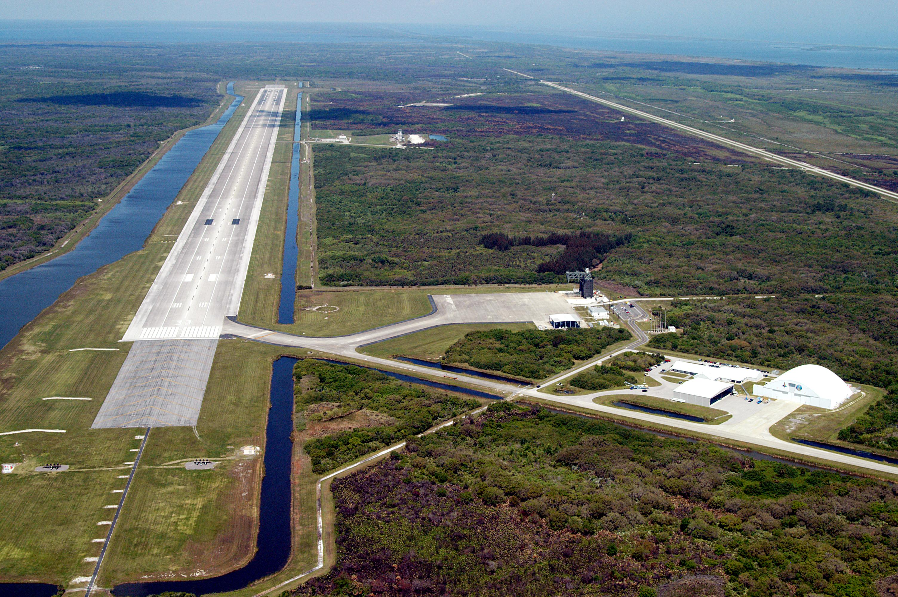 This aerial photo of the runway at the KSC Shuttle Landing Facility looks northwest. Longer and wider than most commercial runways, it is about 15,000 feet long, with 1,000-foot paved overruns on each end, and 300 feet wide, with 50-foot asphalt shoulders. The runway is used by military and civilian cargo carriers, astronauts’ T-38 trainers, Shuttle Training Aircraft and helicopters, as well as the Space Shuttle. At center right is the parking apron with the orbiter mate/demate tower. The tow-way stretches from the runway to the right, passing the hangar and storage facilities. A grassy area next to the mid-point of the runway is where the new control tower is located.